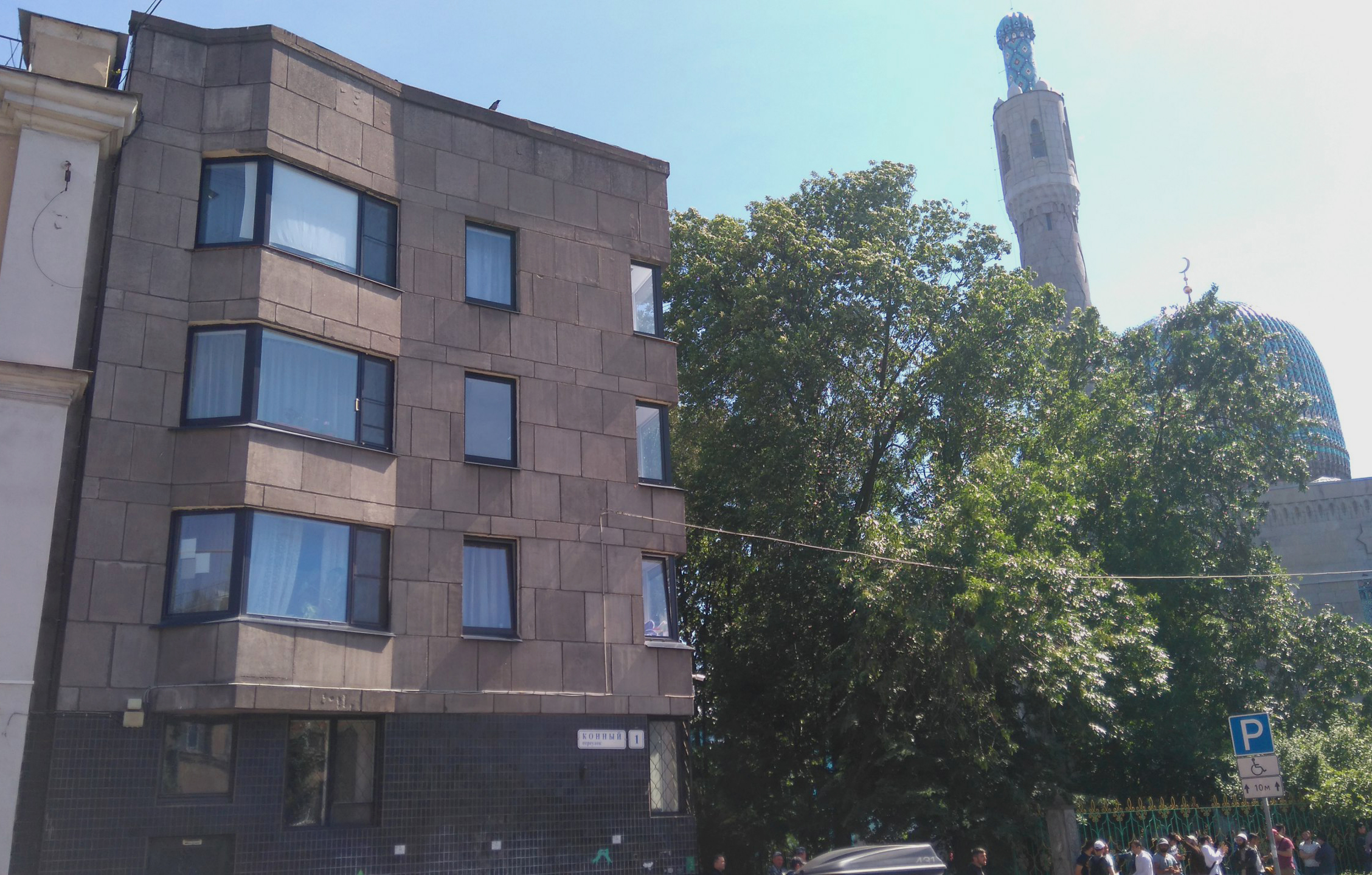 Konny Lane 1. Architect Nikolai Nadёzhin